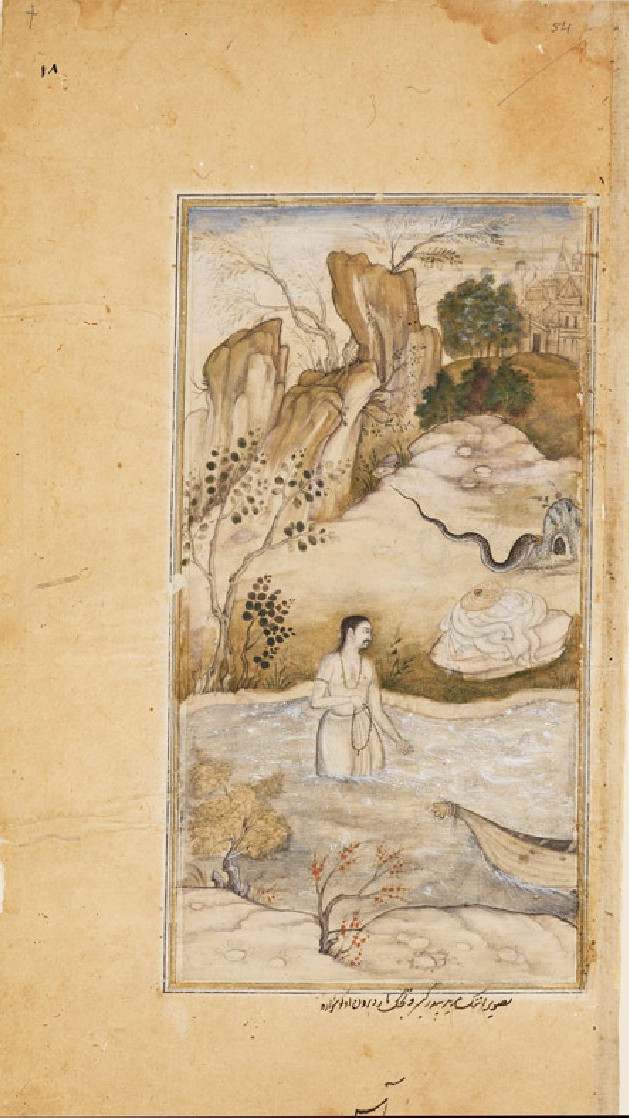 Credit line:Gift of Gerald Reitlinger, 1978.